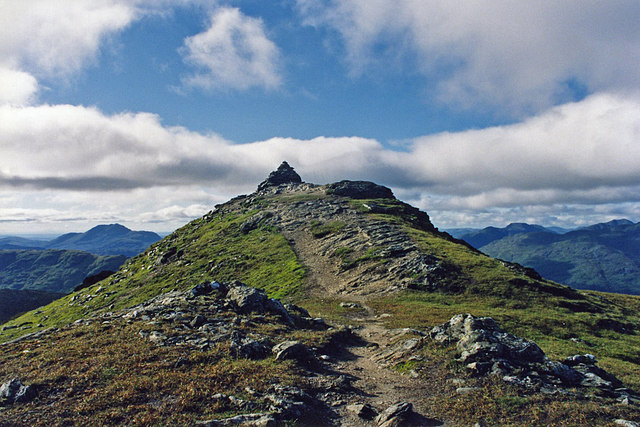 An Caisteal Summit Ben Lomond on the left.